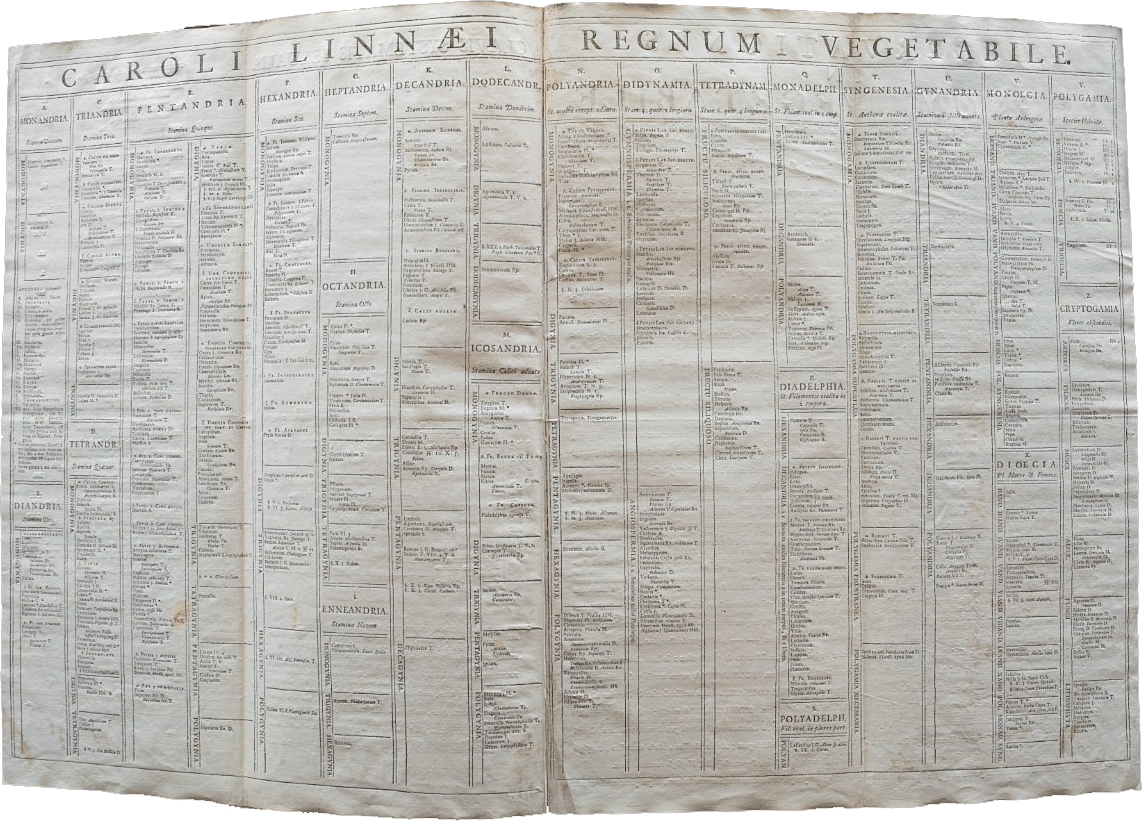 Systema Naturae - 1st edition: Vegetabile